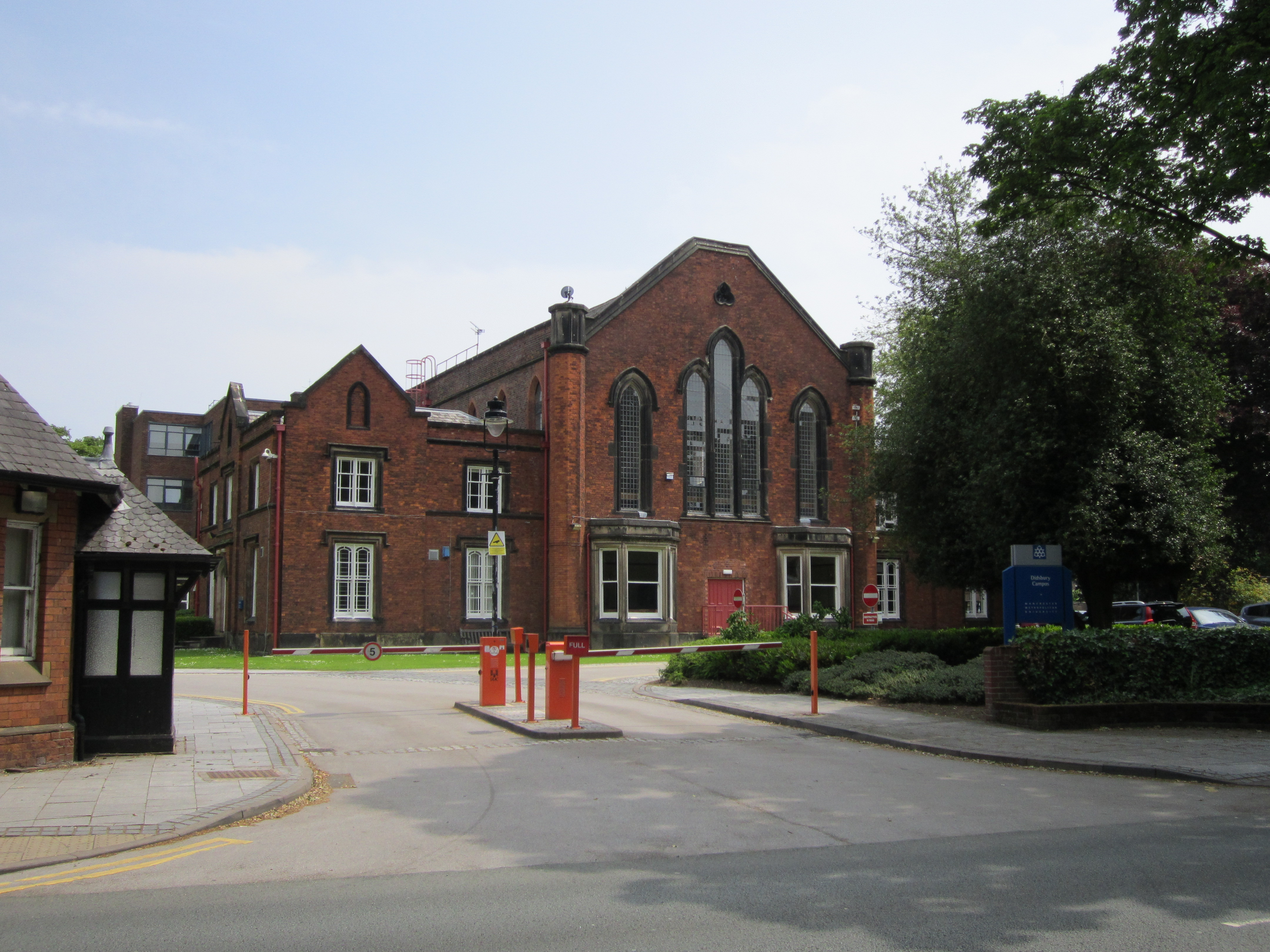 Photo taken at Didsbury Campus, part of Manchester Metropolitan University, England.